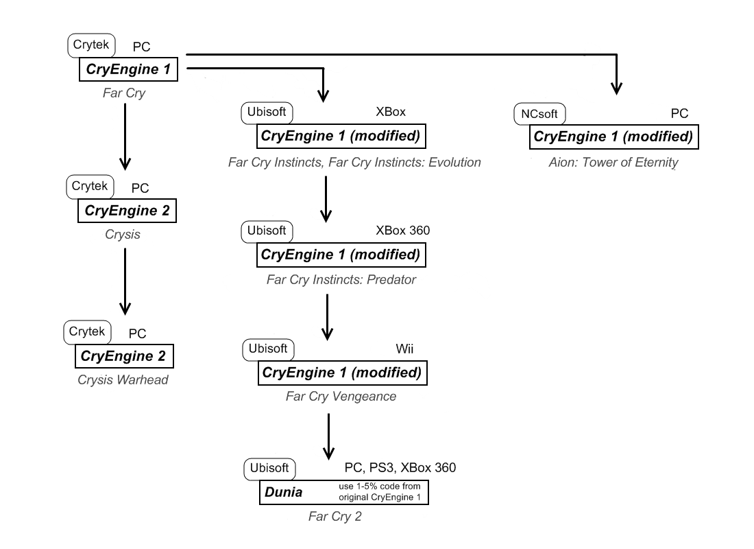 This image illustrates the development history of “CryEngine” game engines family